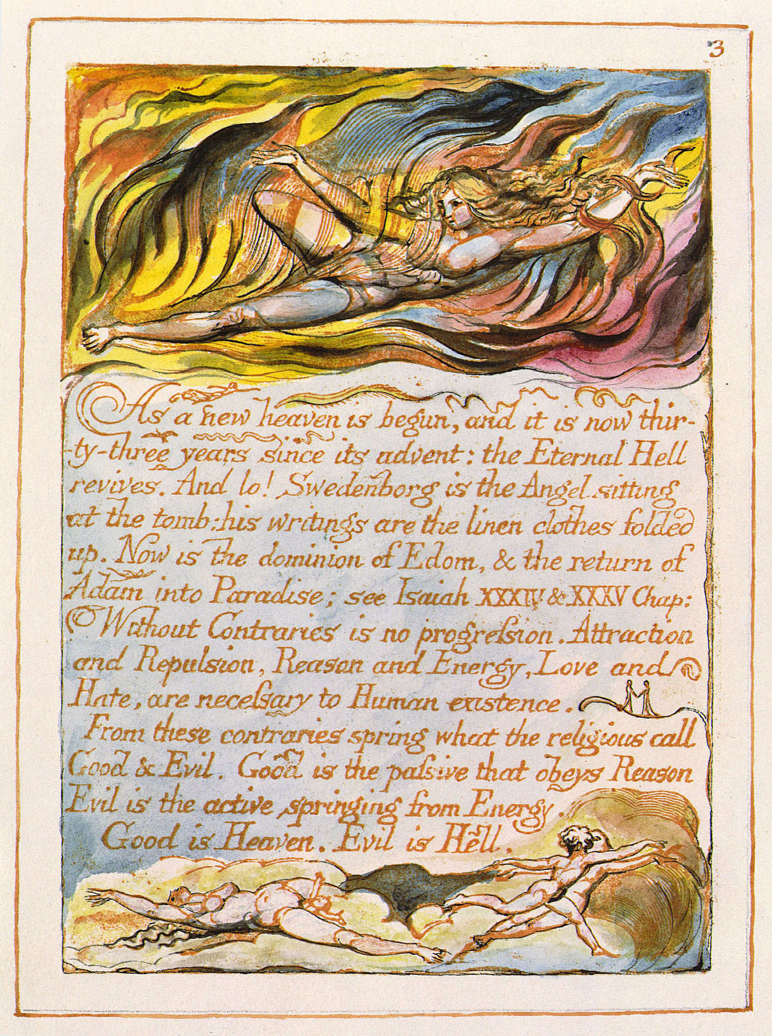 Blake The Marriage of Heaven and Hell, copy G, object 3